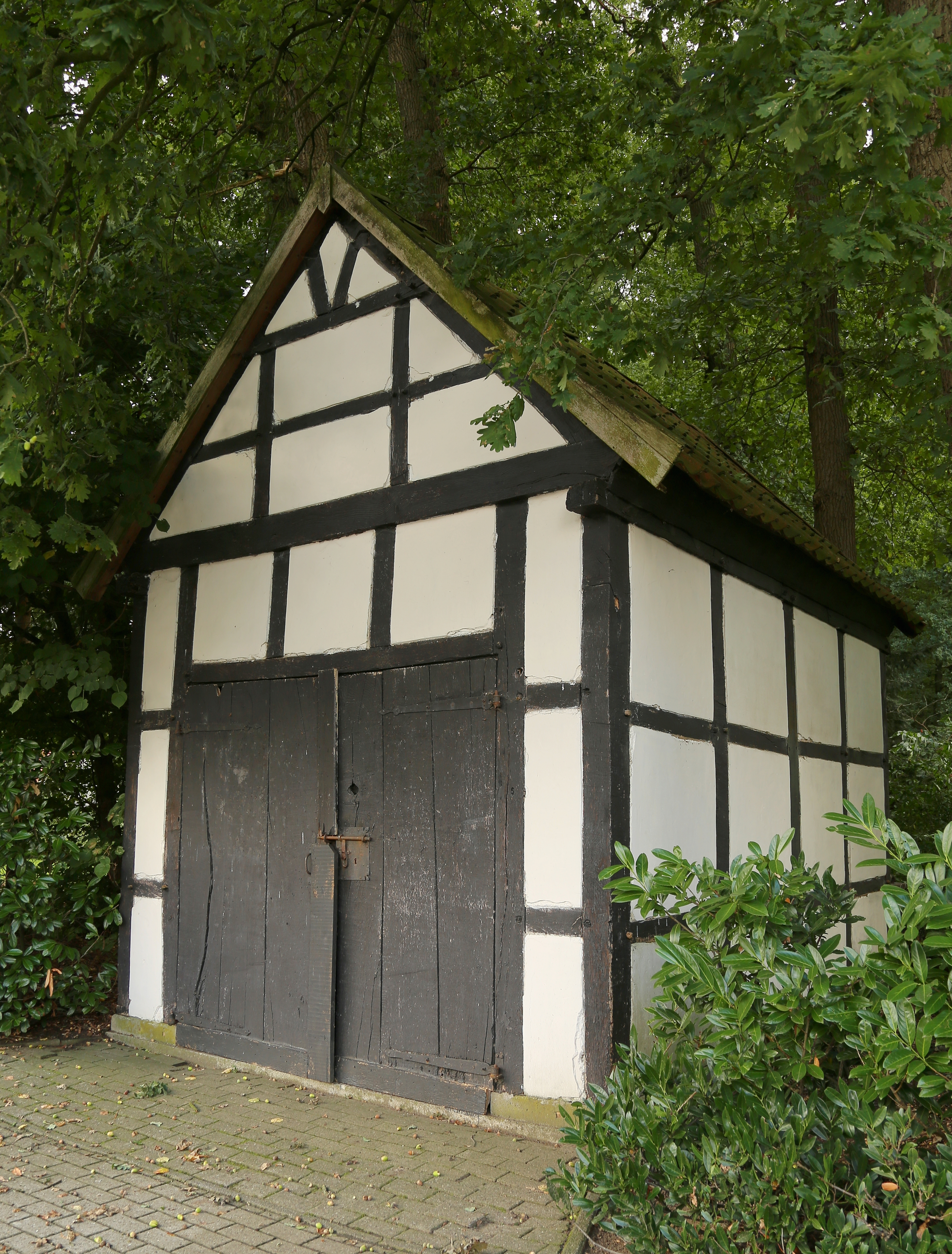 The tiny former fire engine house at Main Street (Hauptstraße) in Hopsten-Halverde, Kreis Steinfurt, North Rhine-Westphalia, Germany.